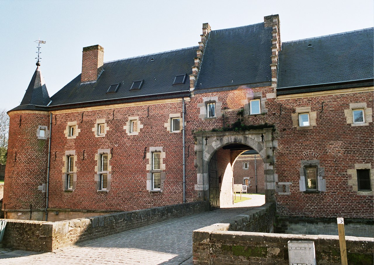 Alden Biesen Castle, Belgium - inner gate